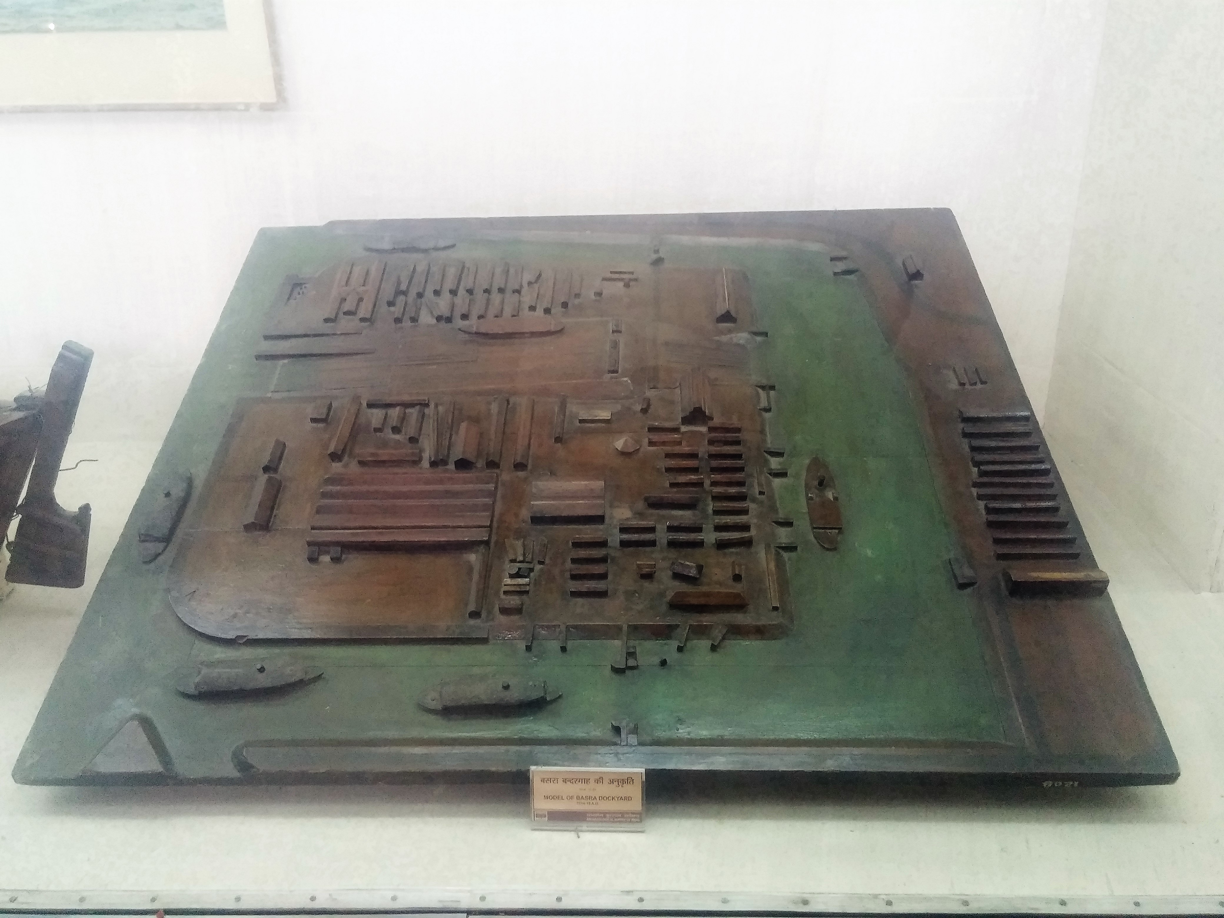 Model of Basra Dockyard of the Indian Army.